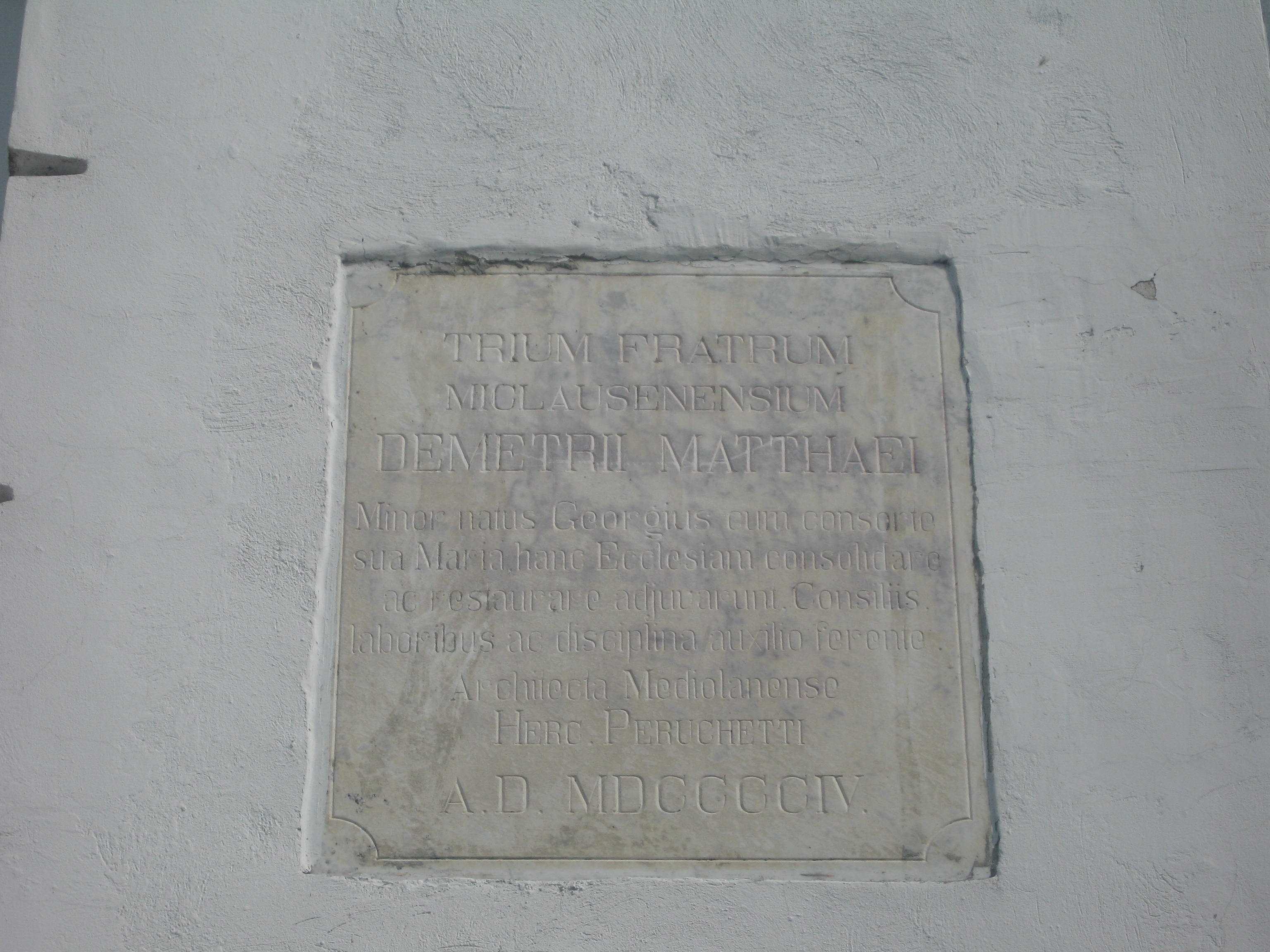 Miclăuşeni Monastery